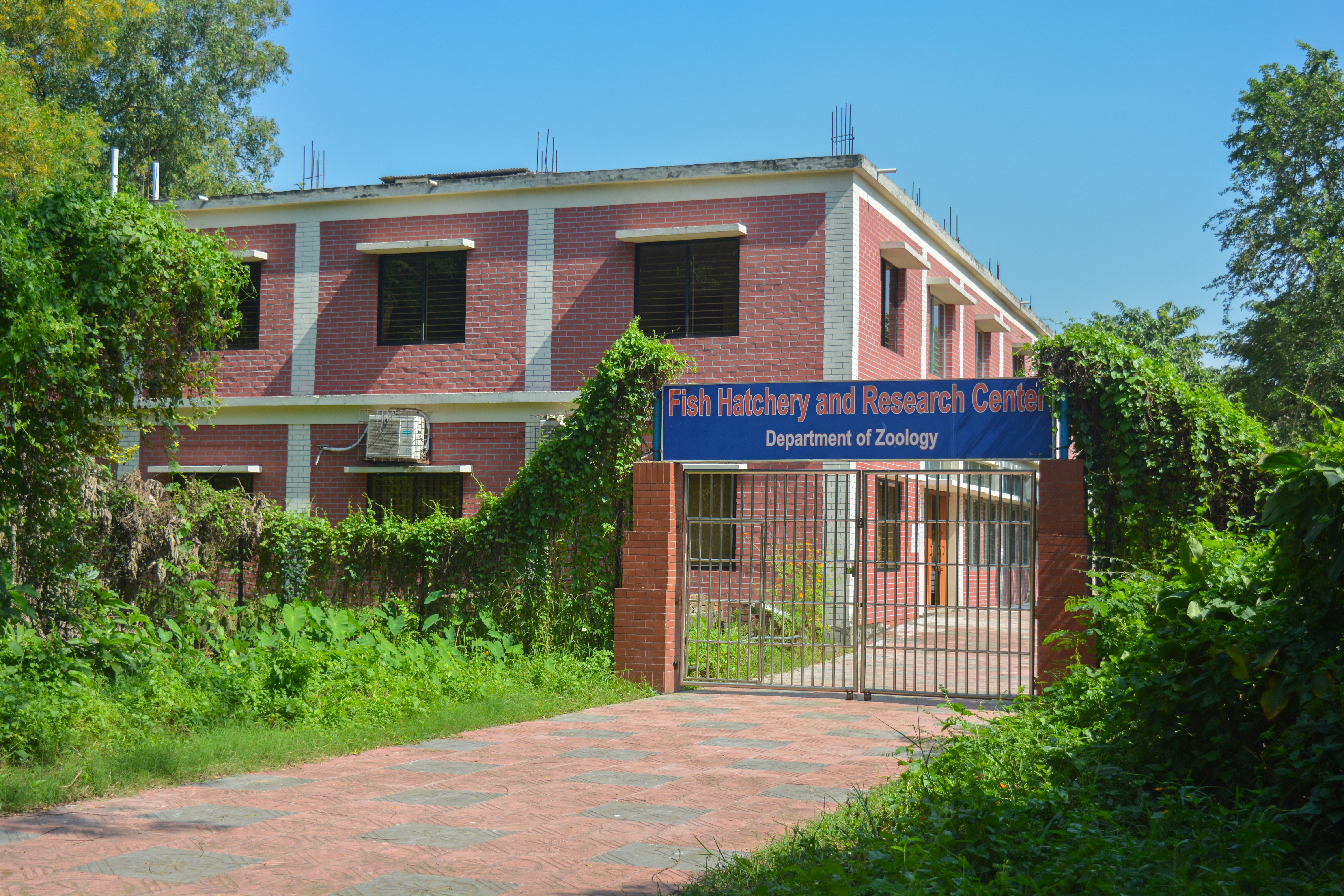 Fish Hatchery and Research Institute at Jahangirnagar University,Bangladesh.